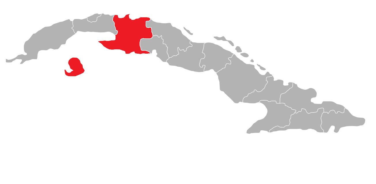 Map of Cuba with provinces defined.